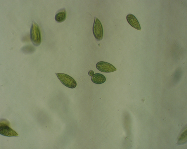 Cells of the microalga Gonyostomum semen (Raphidophyceae) in a culture isolated from lake Bokesjön, Sweden.